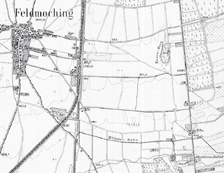 Map of Munich and its suburbs. Compiled from some sheets of the topographic map of Bavaria with the scale 1:25.000 from the years 1907-1914